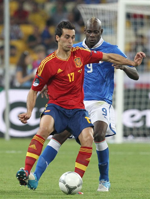 Álvaro Arbeloa and Mario Balotelli at Euro 2012 final Spain-Italy